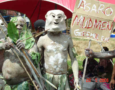 Asaro Mudmen taken during the first Port Moresby Cultural show held at the Sir Hubert Murray Stadium in Port Moresby, Papua New Guinea